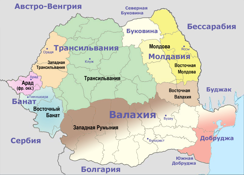 "Philatelic" map of Romania (1858-1918) Principality of Moldavia including East Moldova German occupation of Wallachia 9th army in Eastern Wallachia Dobrogea under Bulgarian occupation Austria-Hungary in Transylvania Western Transylvania East Banat Arad under the French occupation